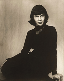 Portrait of filmmaker and curator Jennie Boddington in 1952 photographed by Erwin Rado (1914-1988)